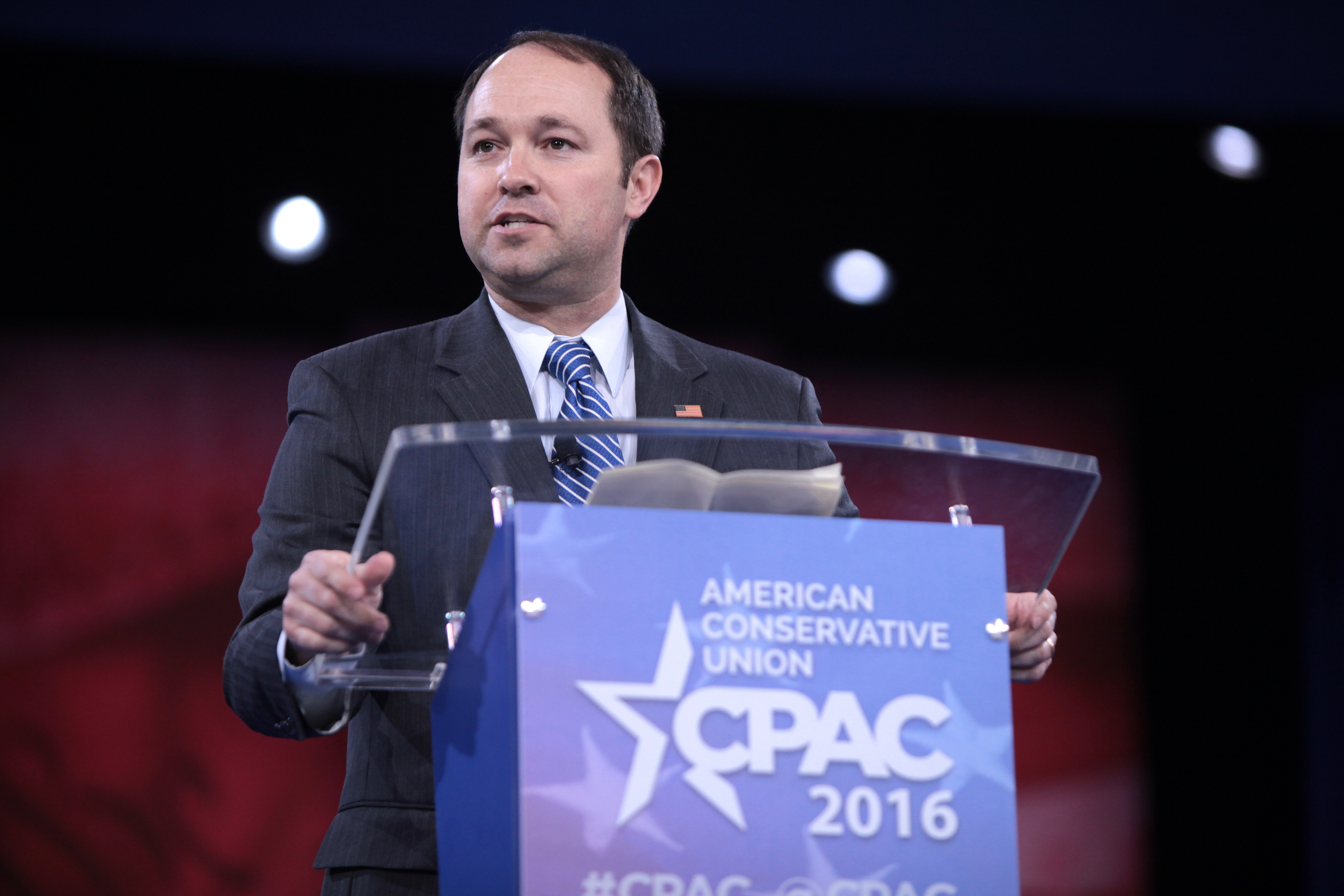 U.S. Congressman Marlin Stutzman of Indiana speaking at the 2016 Conservative Political Action Conference (CPAC) in National Harbor, Maryland.